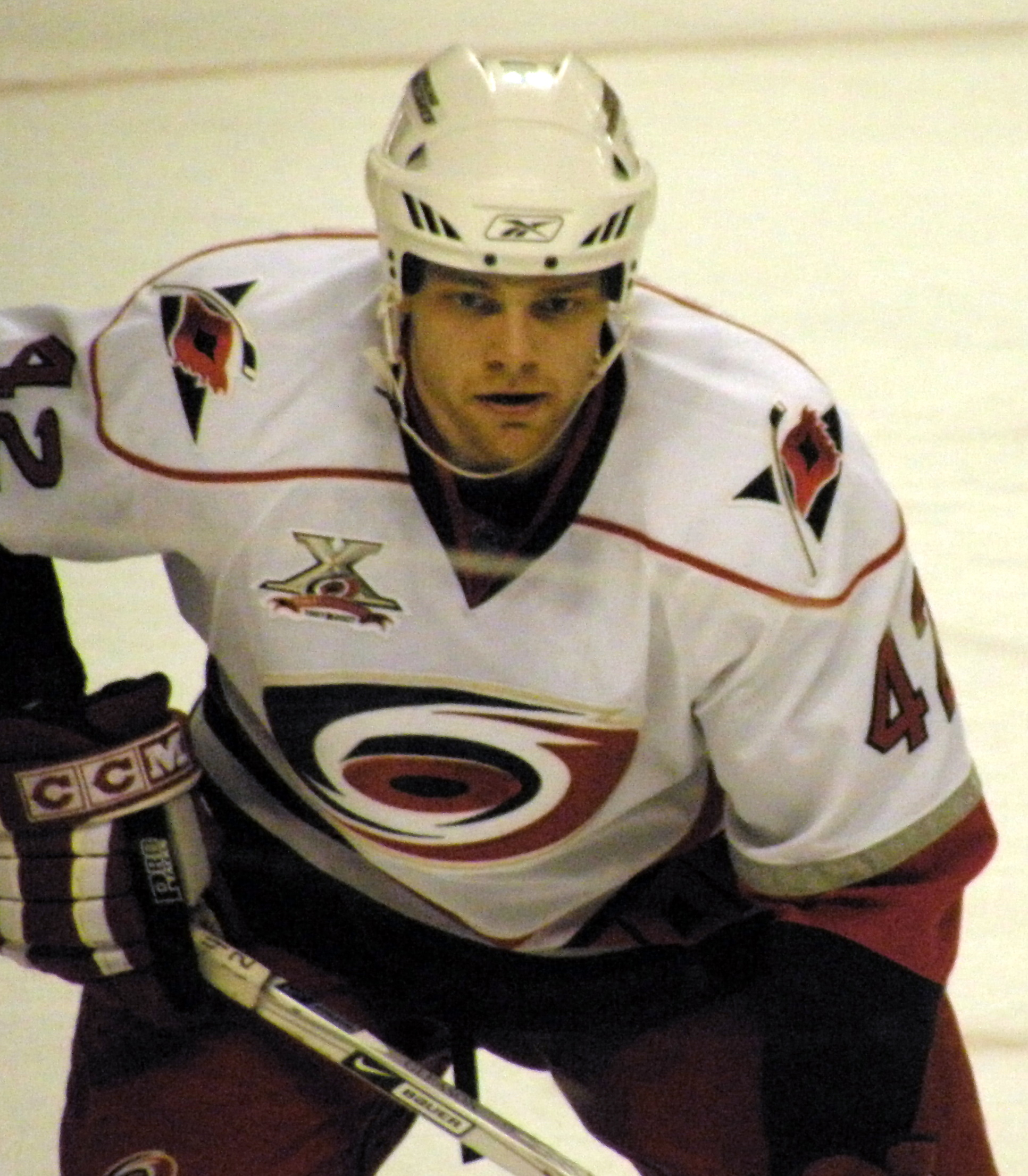 42 Tim Gleason (D)